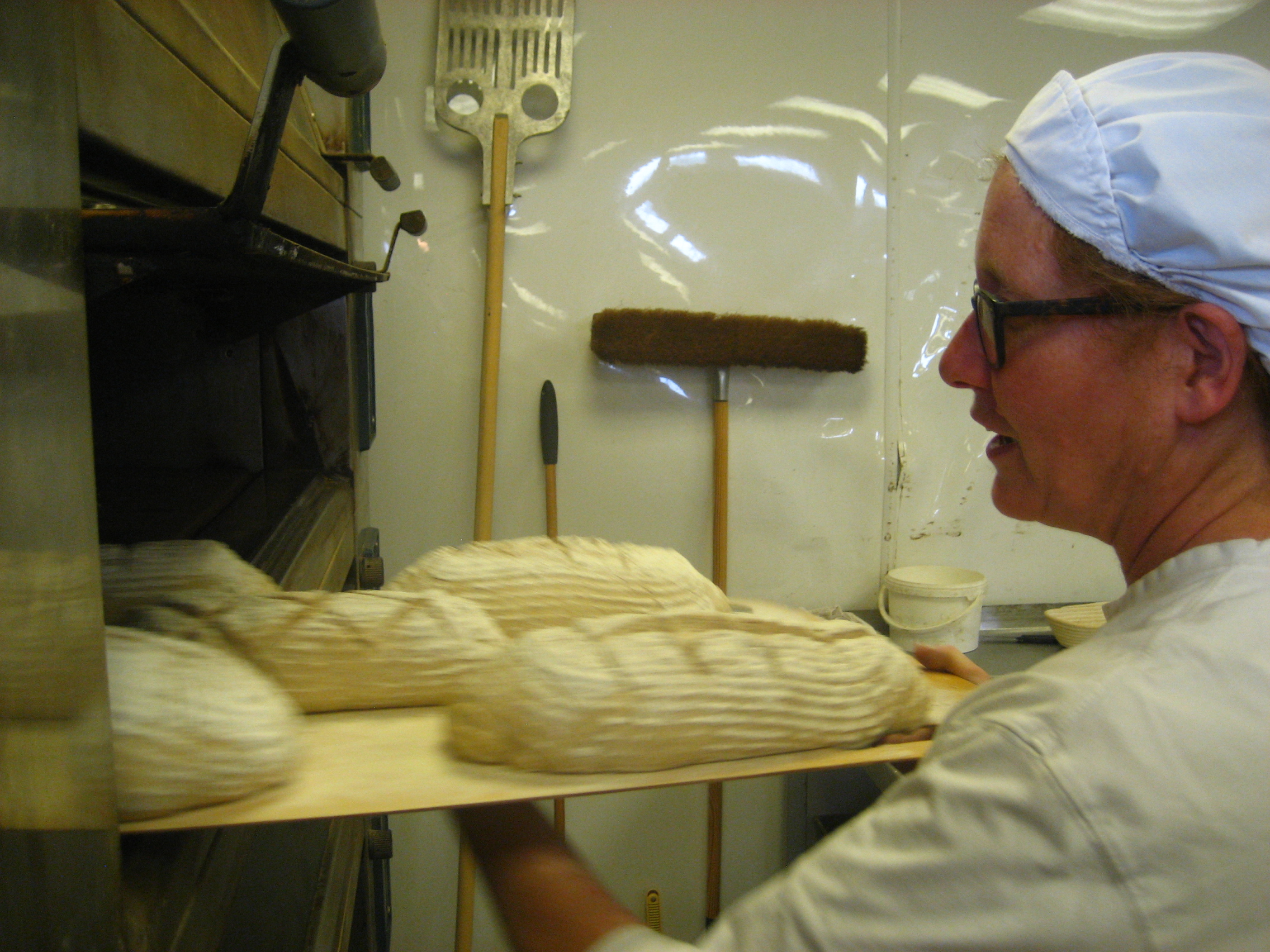 Into the oven